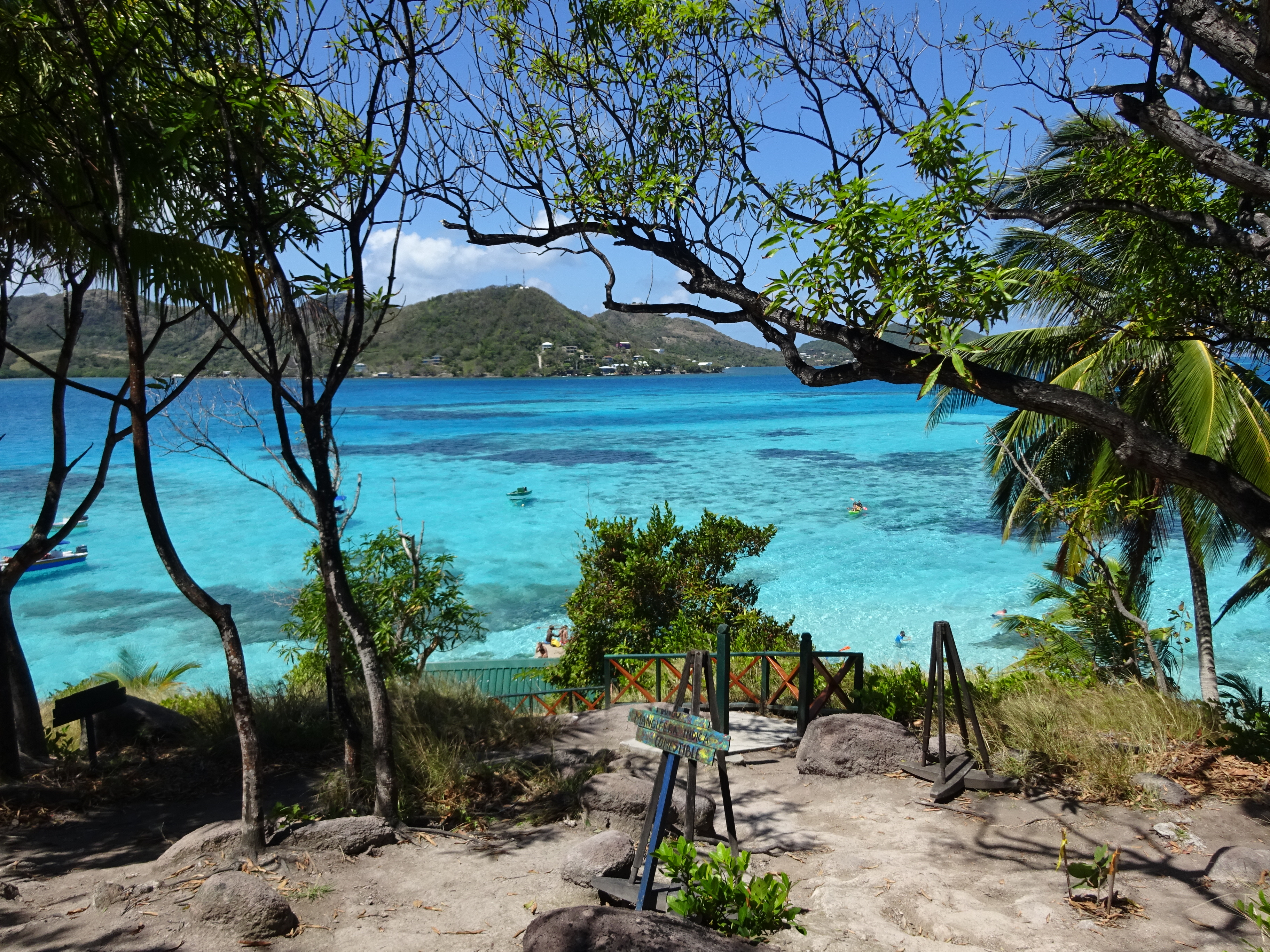 Interior de Cayo Cangrejo, en el parque nacional natural Old Providence McBean Lagoon. Al fondo se aprecia la isla de Providencia